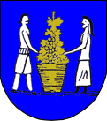 Zarzecze COA